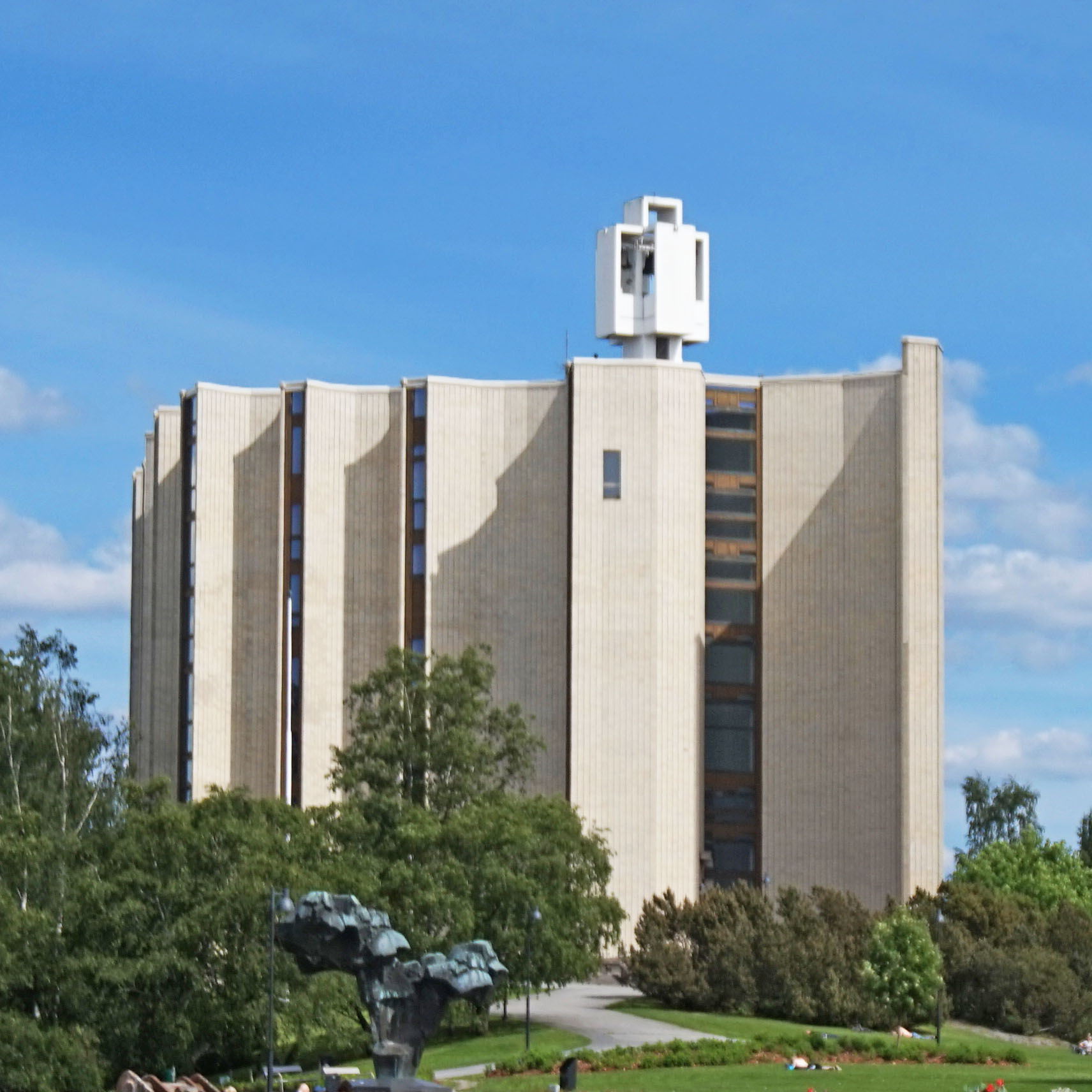 Kaleva church in Tampere, Finland